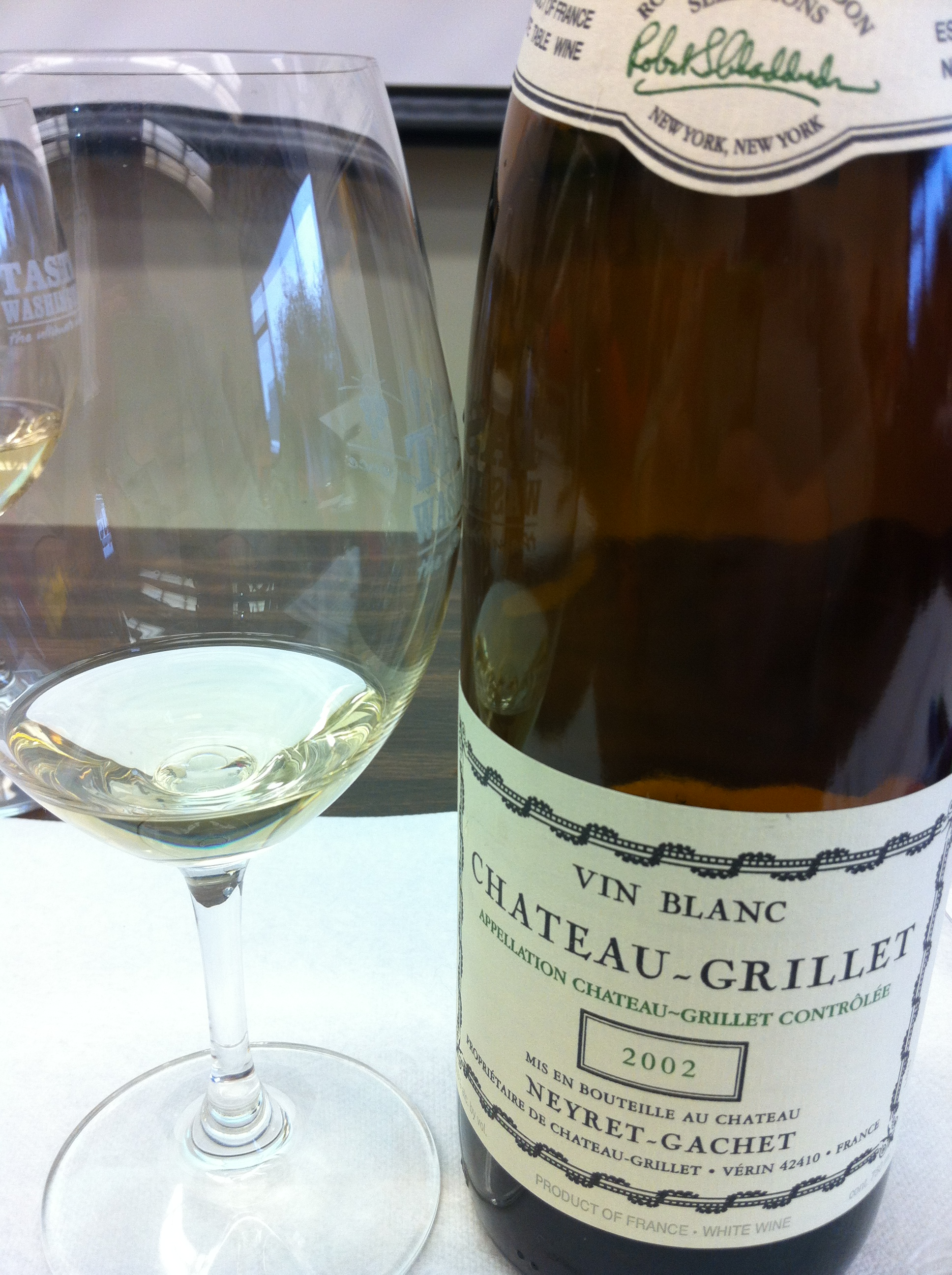 Viognier wine from the Chateau Grillet AOC of northern Rhone